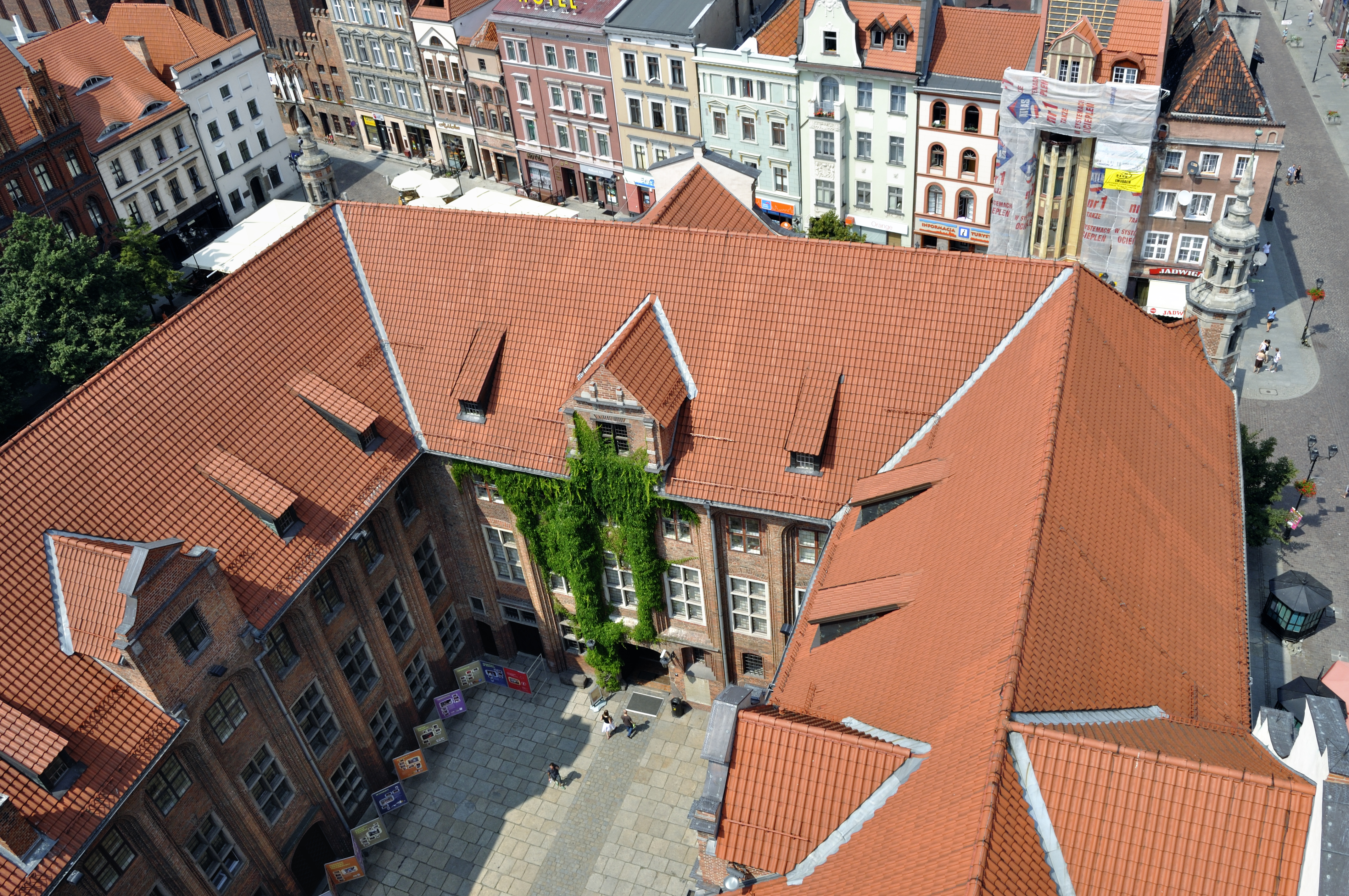 Picture taken in Toruń after Wikimania 2010 conference.